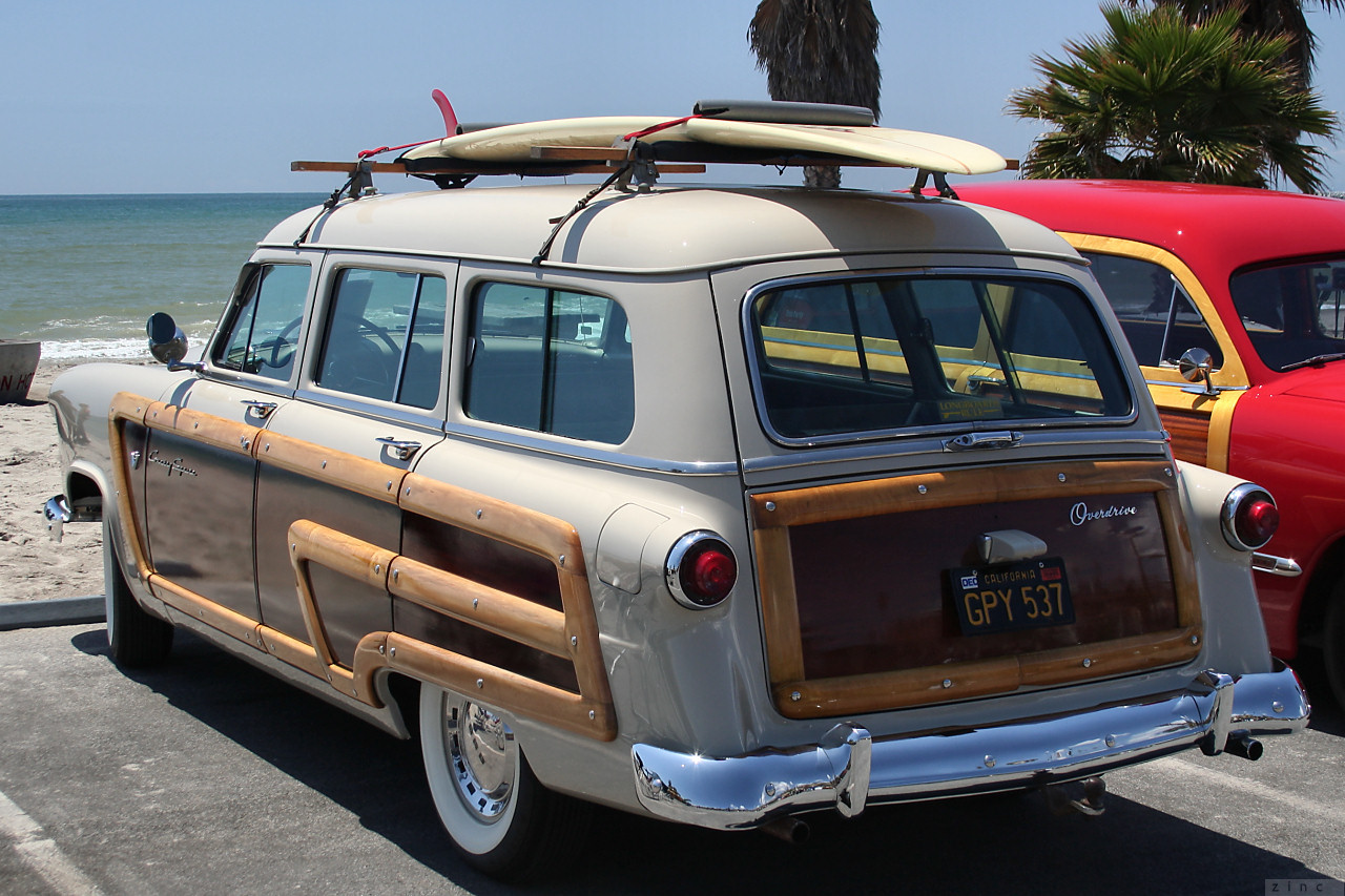 Woodie Club, Doheny, CA, Apr 22, 2007